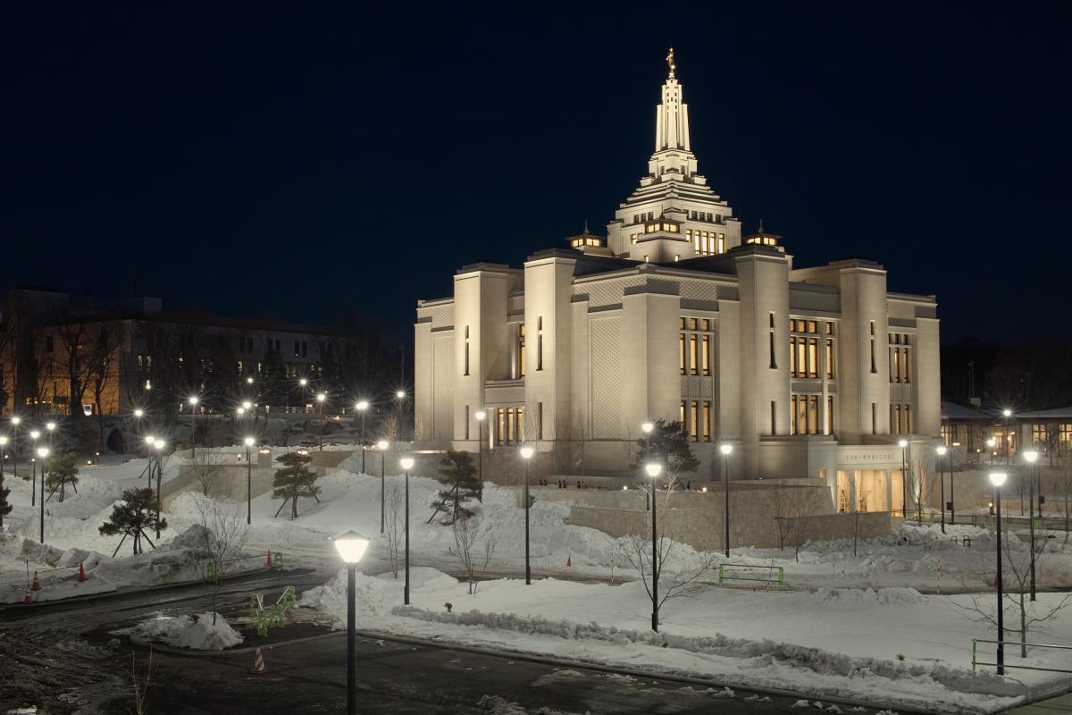 Picture of the Sapporo Temple of The Church of Jesus Christ of Latter-day Saints.